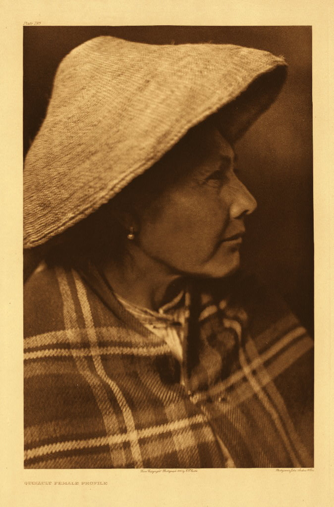 Quinault woman by Edward S. Curtis, 1912 or 1913